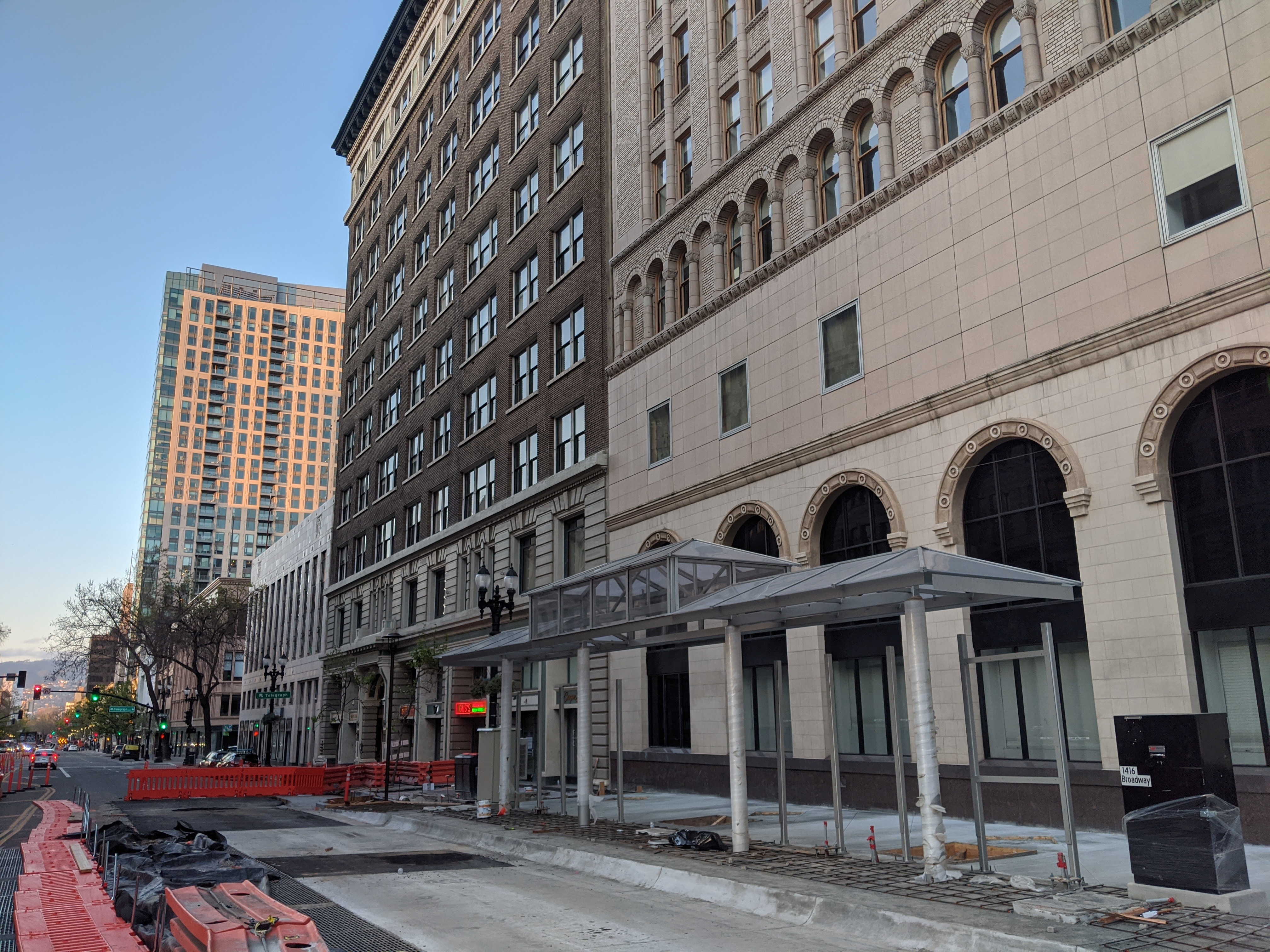 The northbound BRT platform at 14th Street under construction in April 2020